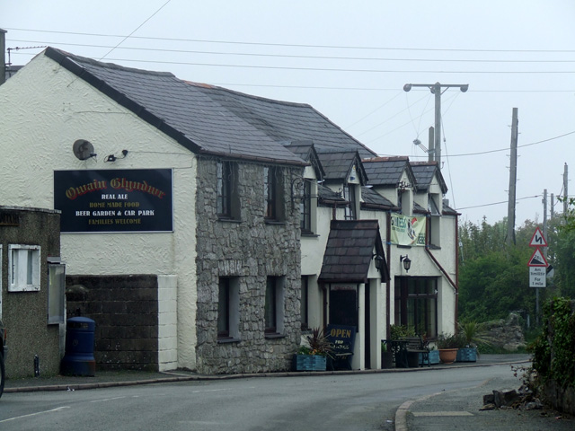 The Owain Glyndwr public house in the village of Llanddona